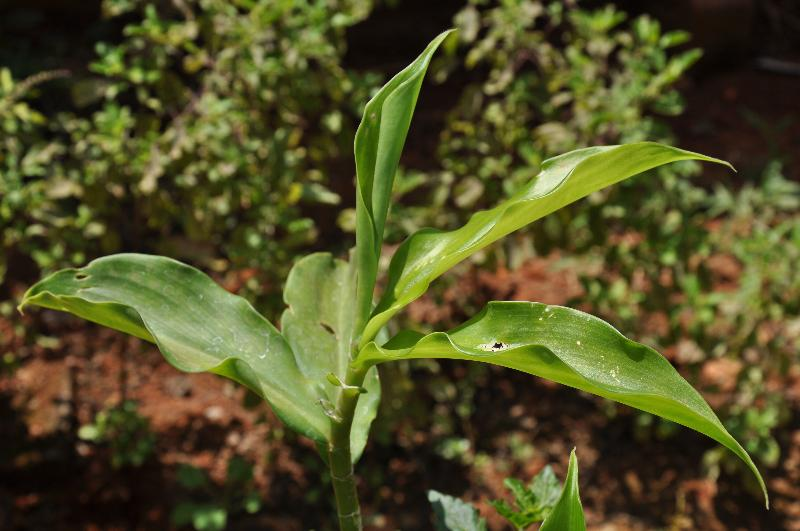 Costus igneus Originally uploaded on FlickR.